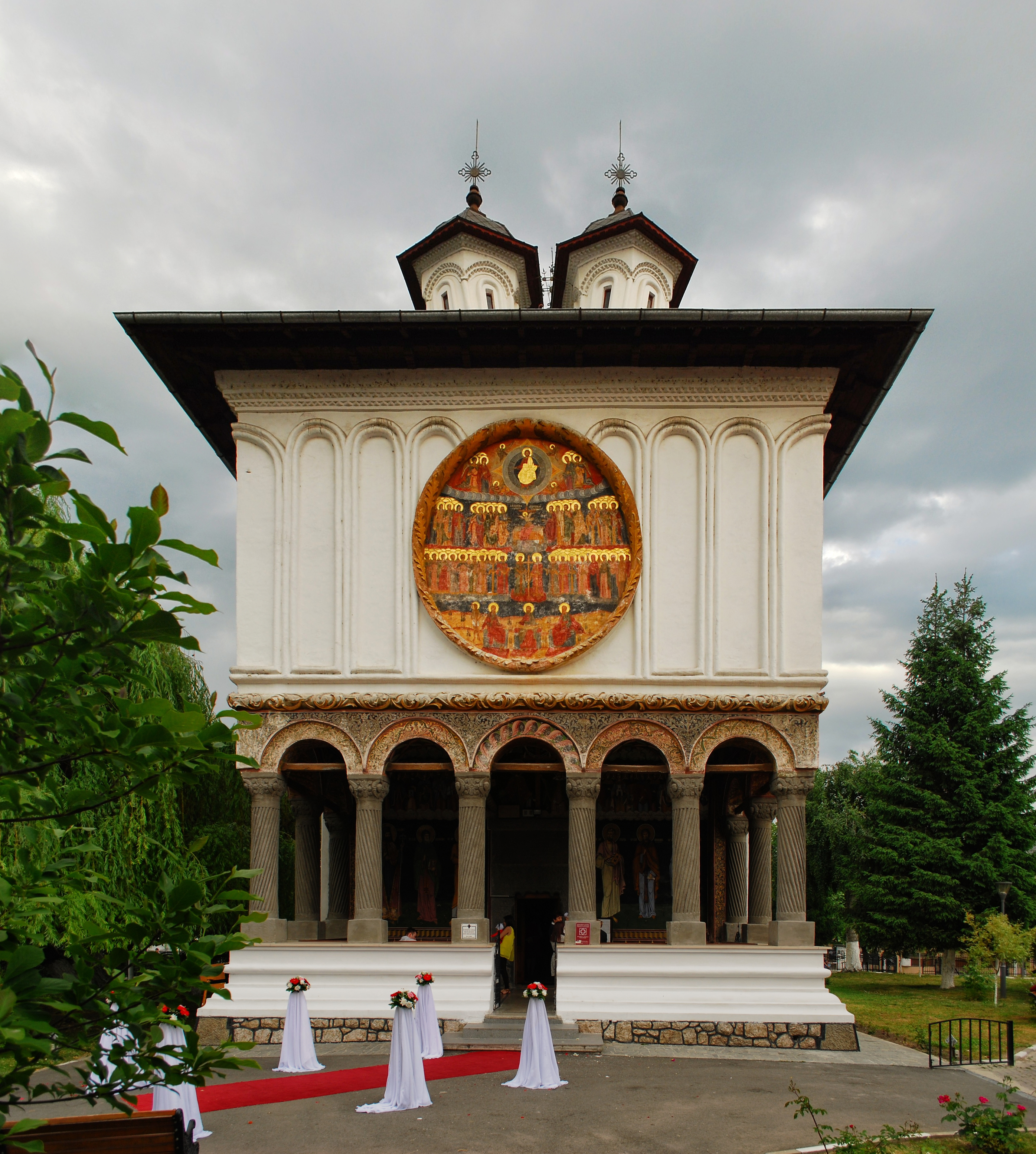 All Saints' church in Râmnicu Vâlcea, RomaniaRomână: Biserica Toţi Sfinţii din Râmnicu Vâlcea, România 01